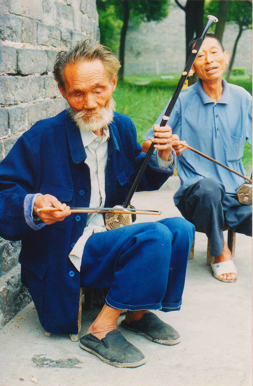 Erhu being played by a blind man in Hubei Province, China.